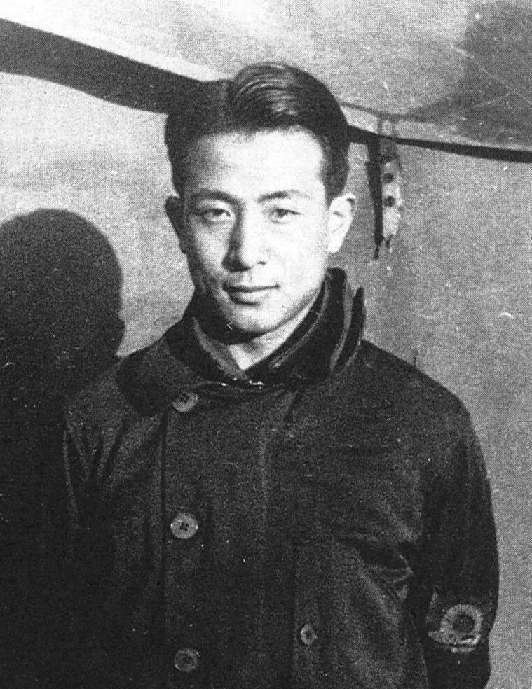 Yoshio Shiga, 1938, 13 air Group, Nanjing Base.